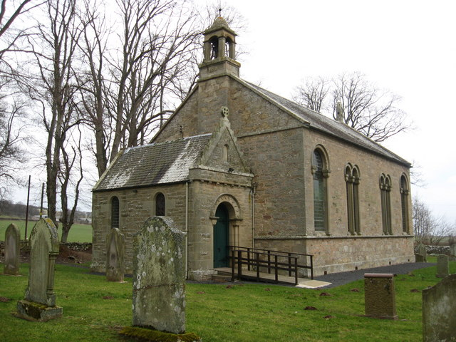 Bonkyl Church in the Scottish Borders